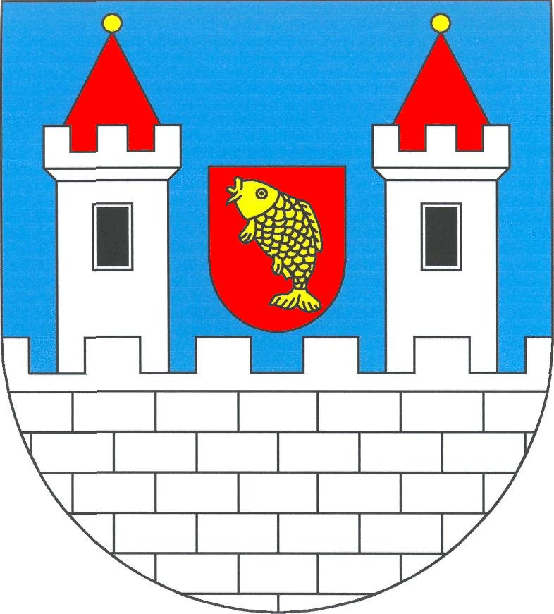 Municipal coat of arms of Postoloprty town, Louny District, Czech Republic.